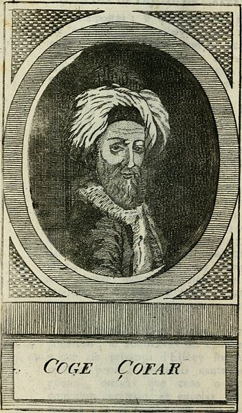 Drawing of Coge Cofar (Khoja Zafar) from 1798 in the book "Vida de D. João de Castro, quarto viso-rey da India" by Freire de Andrade, Jacinto, 1597-1657. Gegë: Vizatim i udheqit shqiptar Khoje Cofarit nga viti 1798 nga autori portugales Freire de Andrade Jacinto.